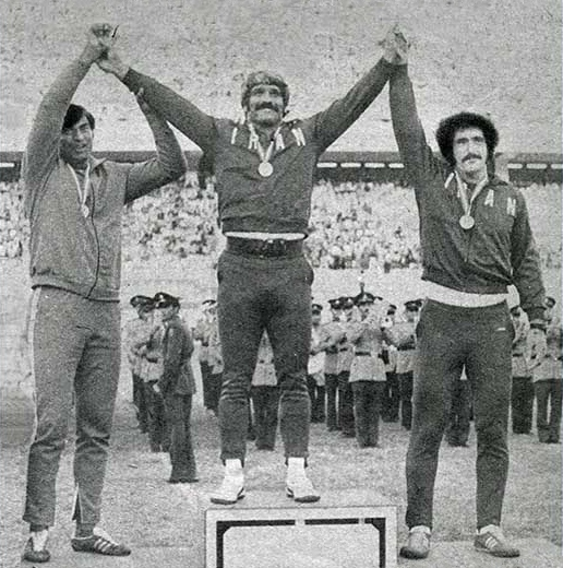 Left-right: Praveen Kumar, Jalal Keshmiri and Salman Hesam at the 1974 Asian Games in Tehran